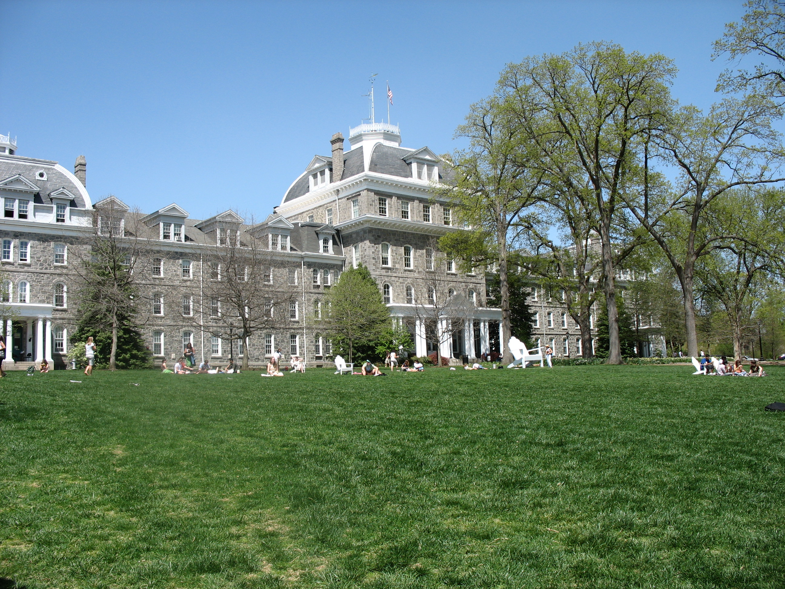 Parrish Hall at the center of the Swarthmore College campus. Picture taken by me during Ride the Tide, en:2006.